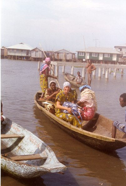 Caption: Jesuko, Benin. The women of Jesuko pole their dug-out canoe to the edge of Lake Nokoue to pick up the 'animators' on the way to the Jesuko church where the meetings are held. L to R: A sister from Jesuko, Philomeme Koumalon, a mid-wife at Bethesda, MBM worker Lynda Hollinger-Janzen, Chantal Xosue - a social worker at Bethesda (back turned). Citation: Mennonite Board of Missions Photographs. Benin, Hollinger-Janzen, 1980-90s. IV-10-7.4 Box 1 Folder 17. Mennonite Church USA Archives - Goshen. Goshen, Indiana.